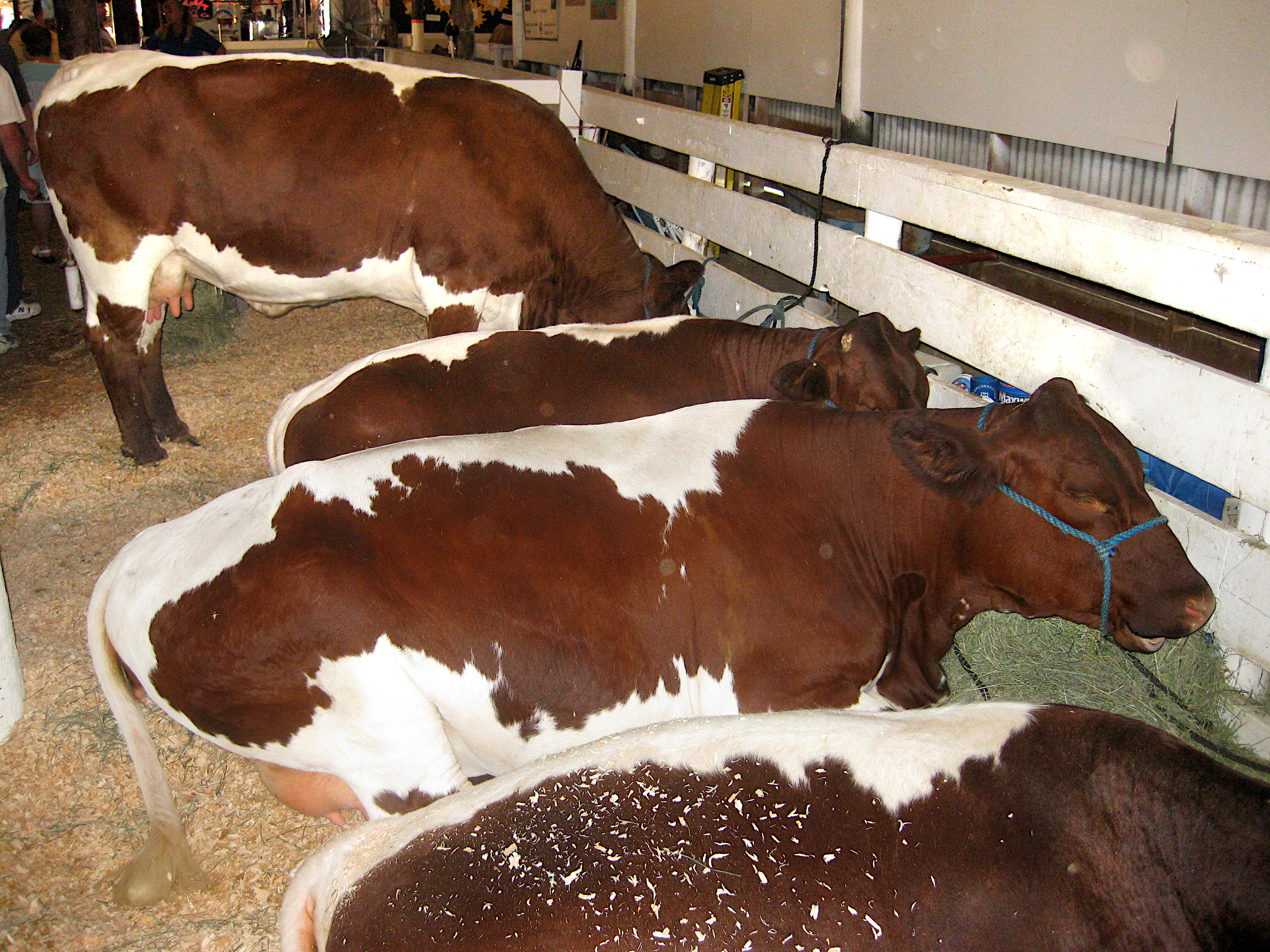 Pinzgauer cows, owned by Tom Gordon of Forest Grove, Oregon, at the Clark County fair in Battle Ground, Washington